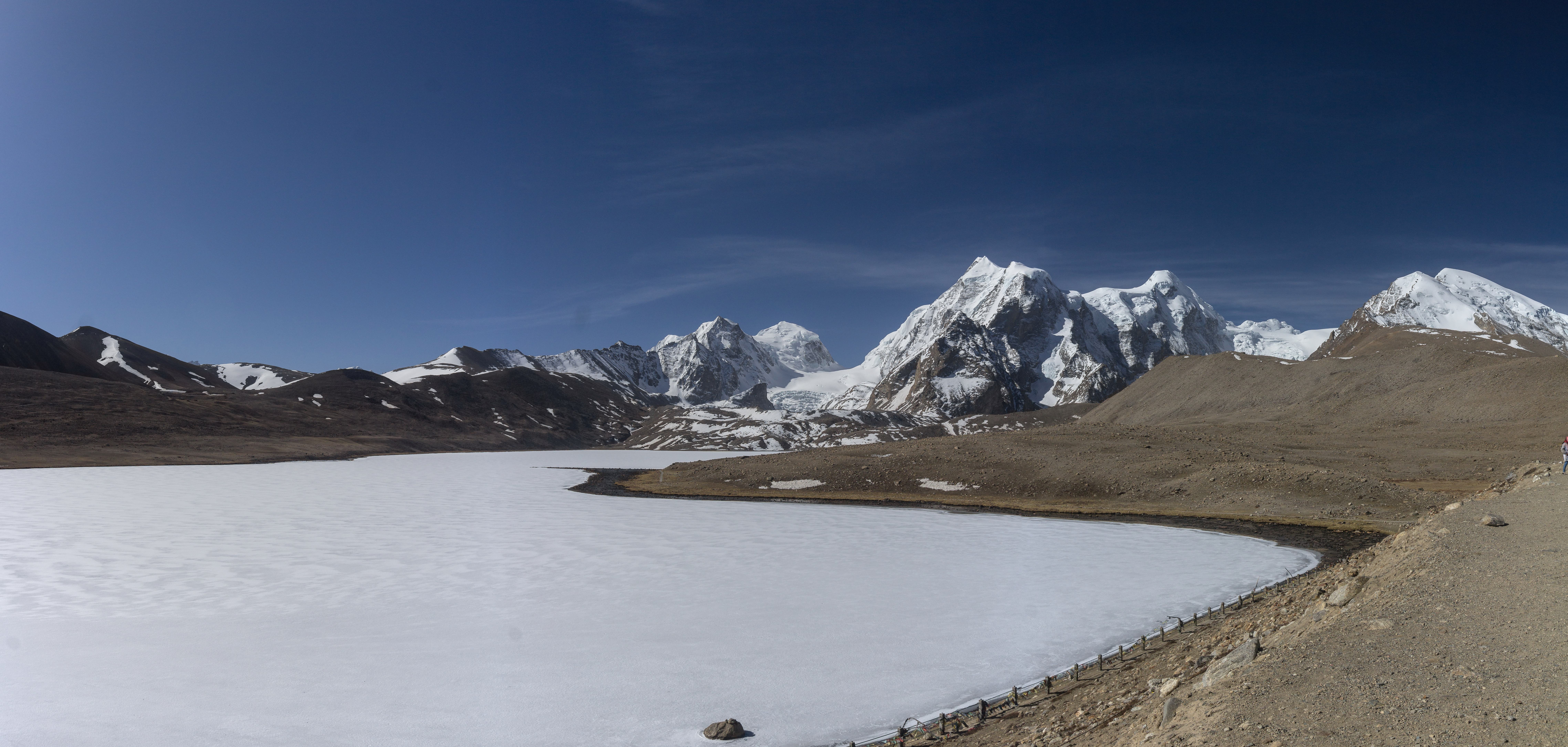 Panorama view of frozen Gurudongmar Lake in May 2015